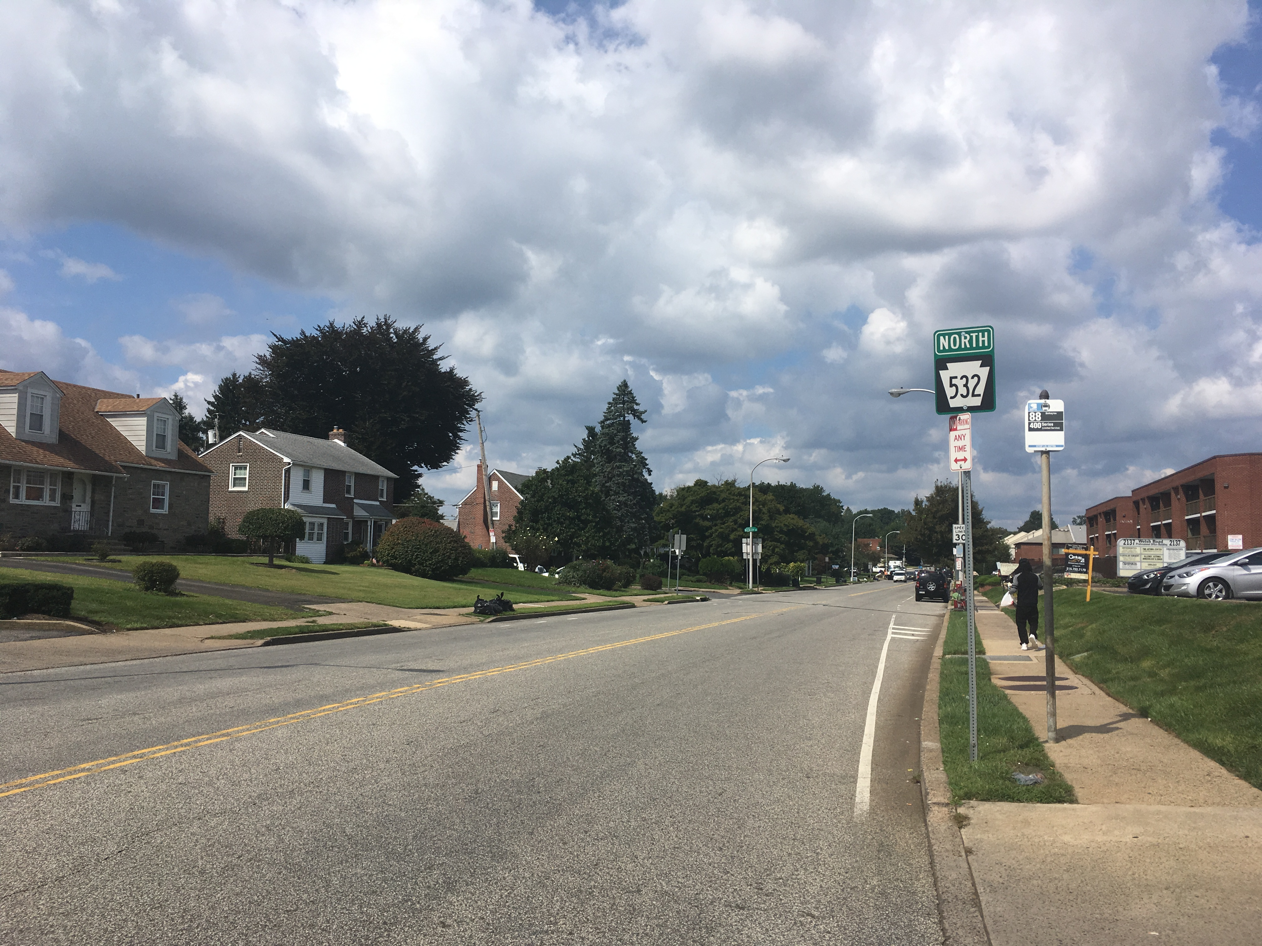 Northbound Pennsylvania Route 532 (Welsh Road) past its southern terminus at U.S. Route 1 (Roosevelt Boulevard) in Philadelphia, Pennsylvania